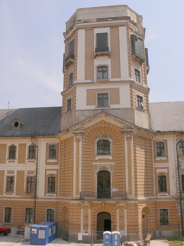 The astrodome of the Lyceum (Eger, Hungary)